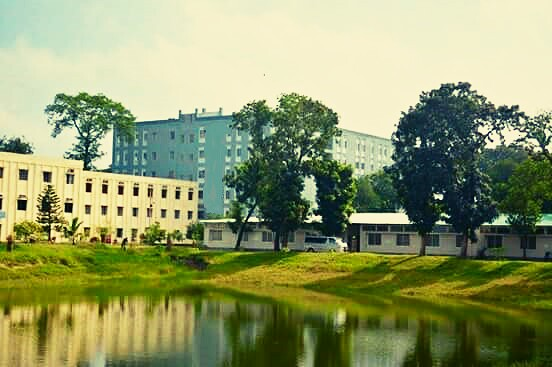 BAUST back view (Environmental)